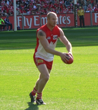 Barry Hall kicking the Sydney Swans forward